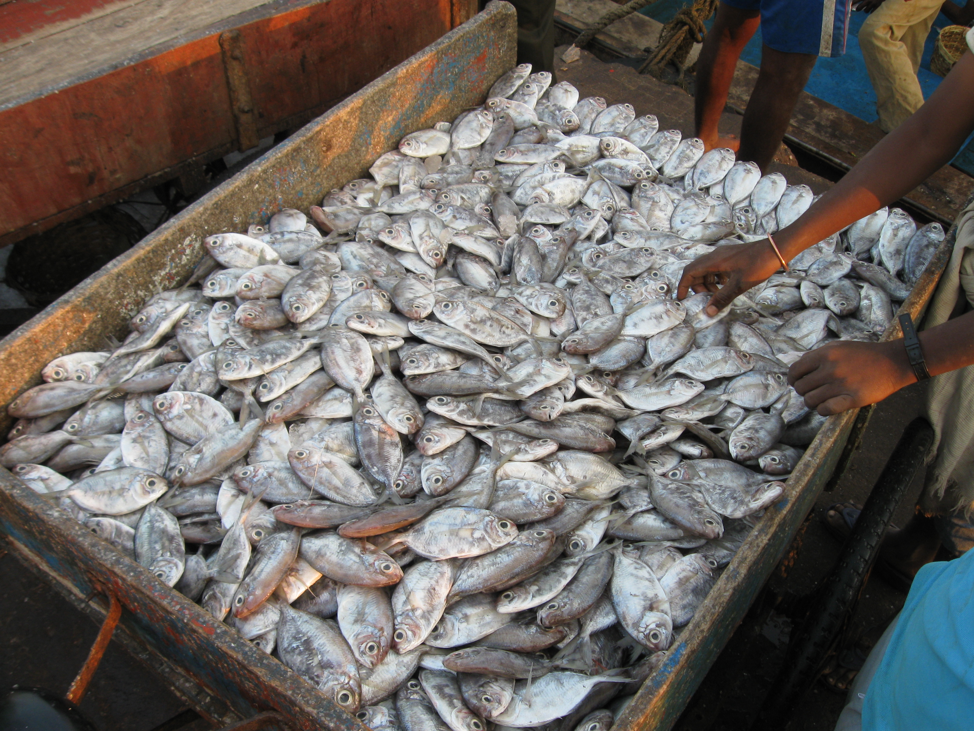 False Trevally or Butter Fish in Visakhapatnam Landing Center at Andhra Pradesh, India